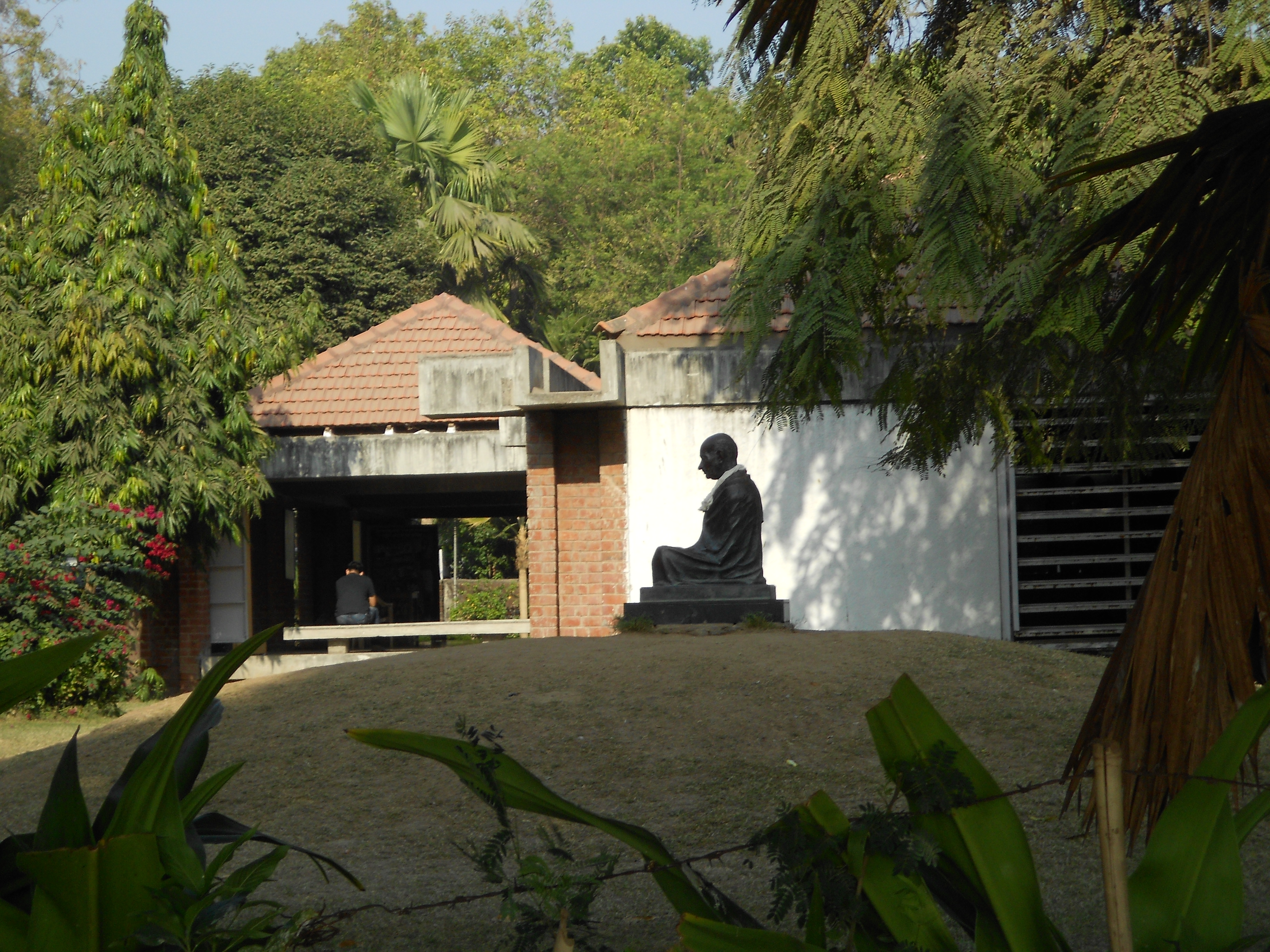 PHOTOS OF BAPU